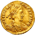 Libius Severus. 461-465 AD. AV Solidus (4.31 gm). Ravenna mint. Diademed, draped and cuirassed bust right Severus standing facing, holding long cross in right hand and Victory on a globe in left, his right foot resting on a human-headed serpent; R-V/CONOB. RIC X 2719; Depeyrot 24/1; Lacam 25. VF, typical wavy flan.